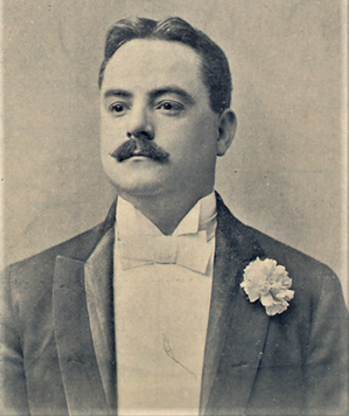 Recording artist Will F. Denny ca. 1899 from sheet music for "My Old Westchester Home Among the Maples".